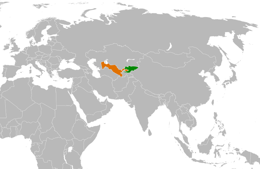 Locator map showing Uzbekistan and Kyrgyzstan